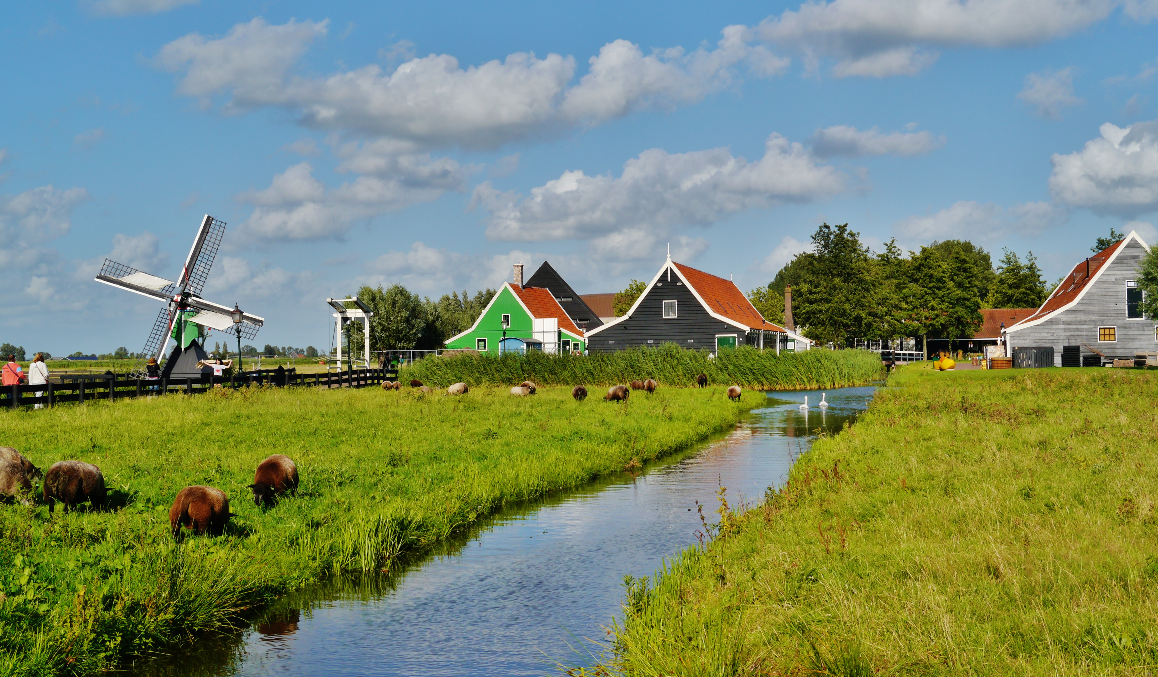 Outdoor Museum Zaanse Schans, Zaanstad, Province of North-Holland, Niederlande